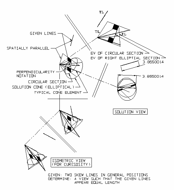 Descriptive geometry - skew lines appear equal length This drawing is one of several in a series used to illustrate Descriptive Geometry examples. 2005 United States Department of the Navy